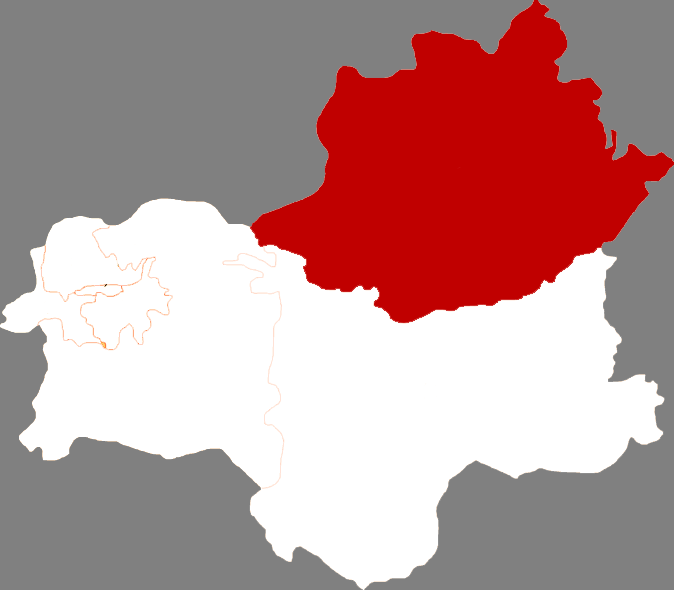 Location of Qingyuan Manchu Autonomous County in Fushun City, China